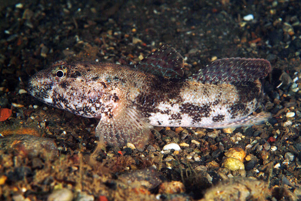 Gobius cobitis photographed near Tuscany coasts (Italy). Photo by Stefano Guerrieri.